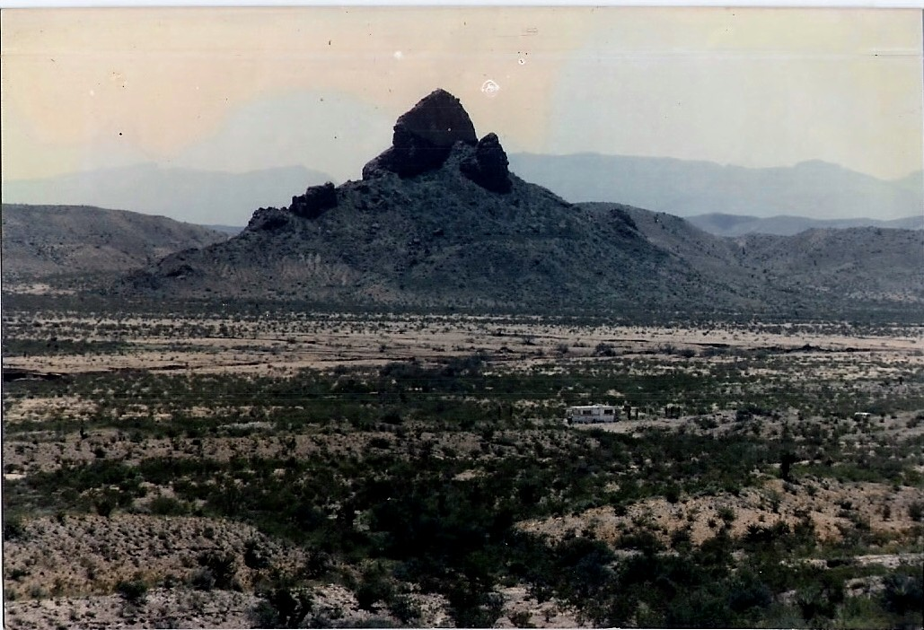 Needle Peak, Presidio County, Texas, USA. Photographed by Clarence Louviere, Vancleave, Mississippi, while on a trip to the region with the author.